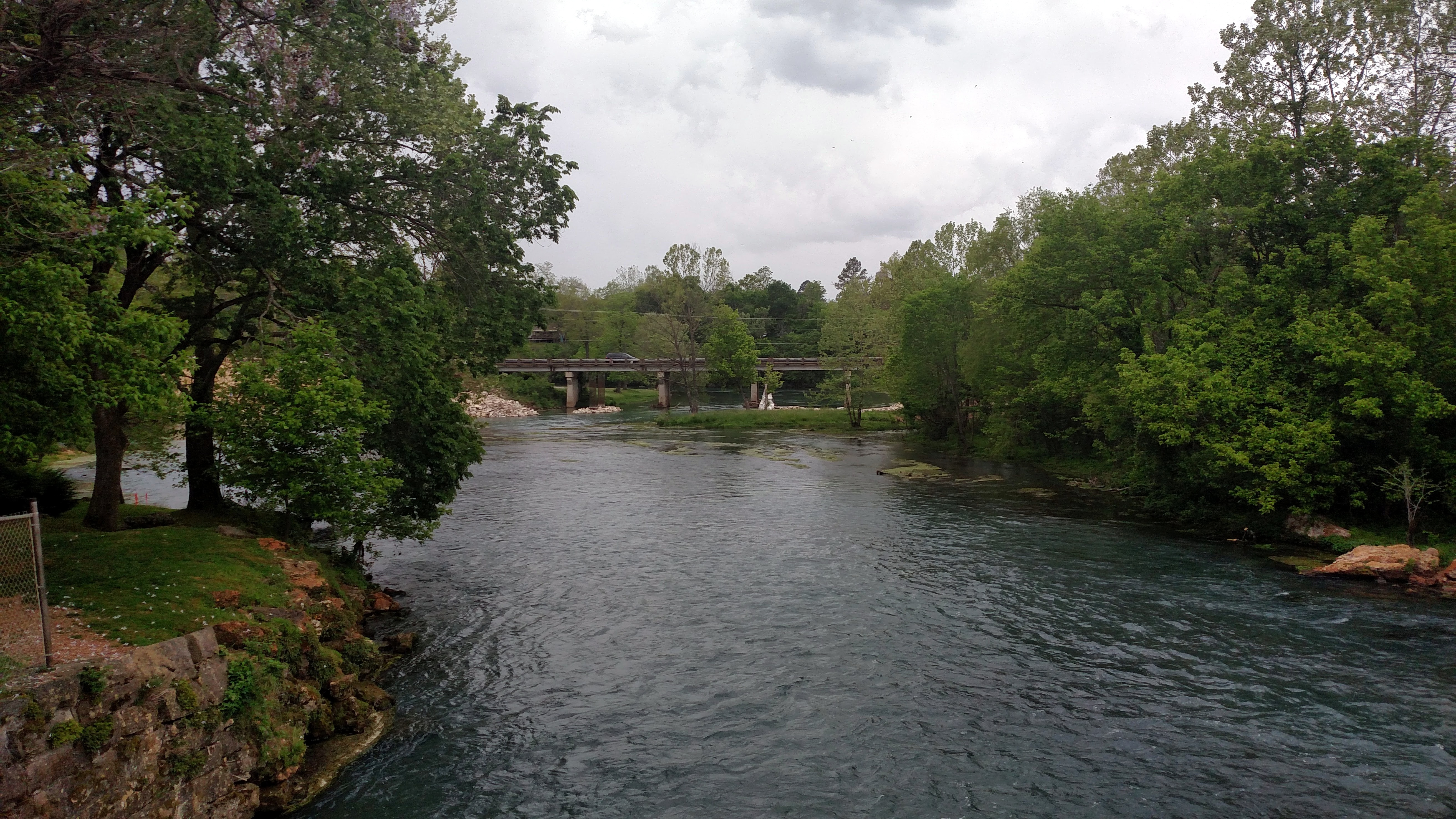 Downstream view from spillway on Spring River in Mammoth Spring State Park in Mammoth Spring, Arkansas